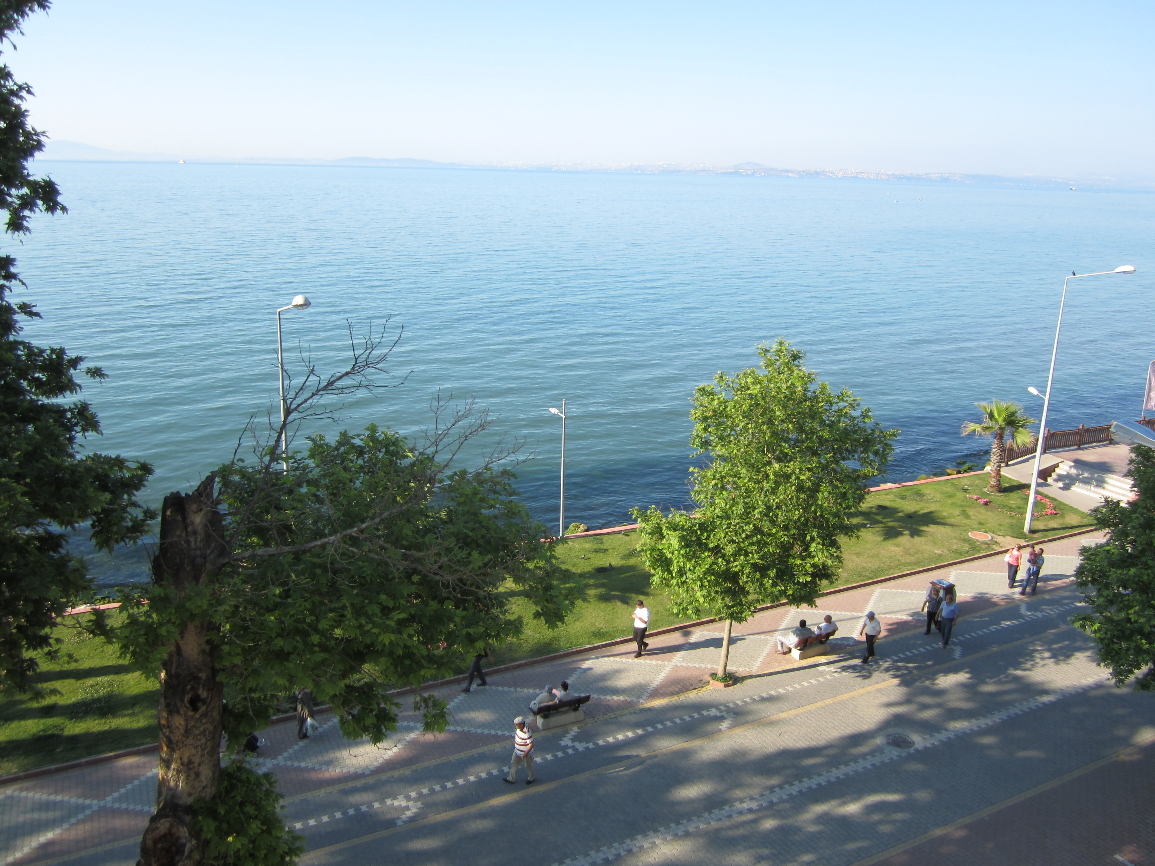 the seaside from above